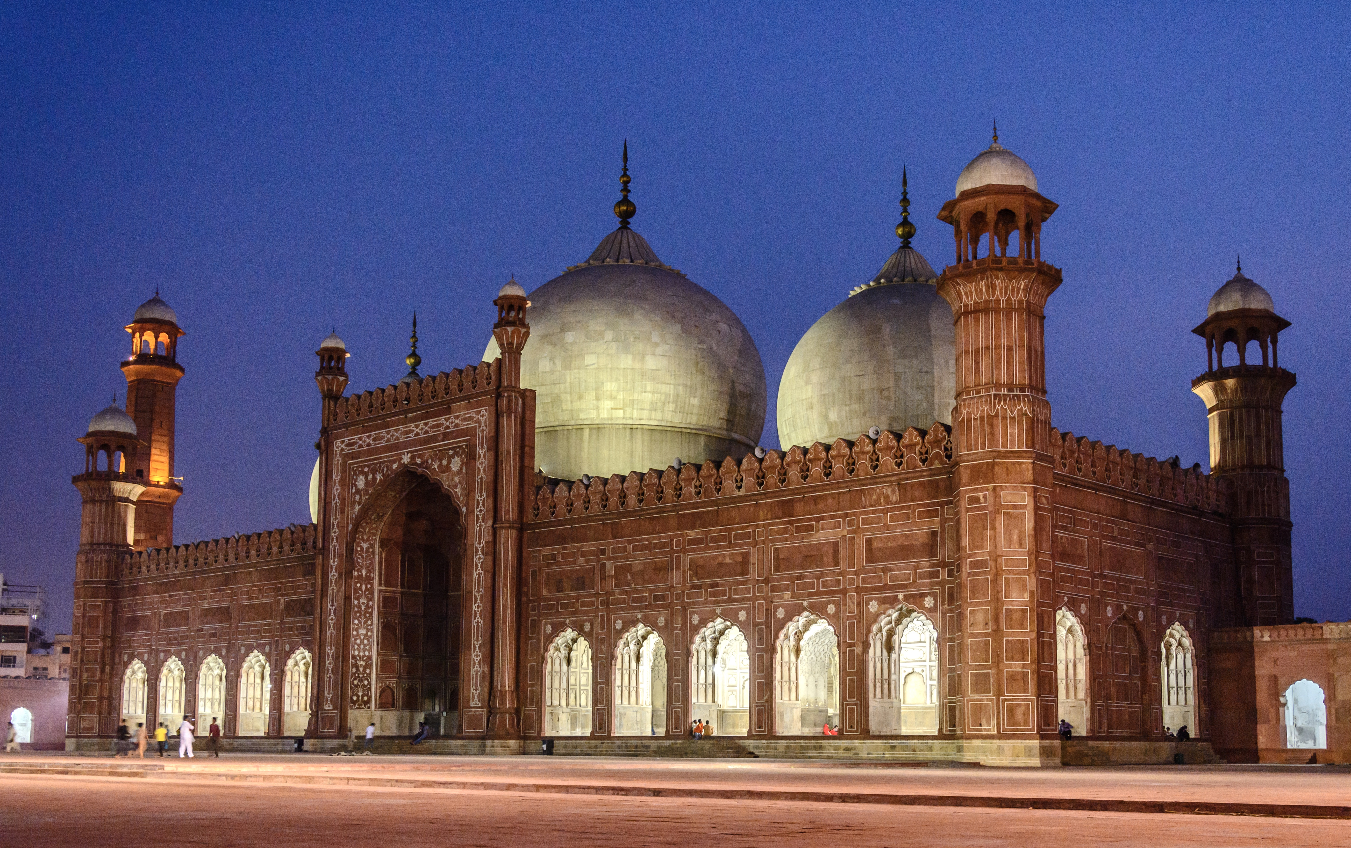 Badshahi Mosque (King’s Mosque) This is a photo of a monument in Pakistan identified as the PB-44